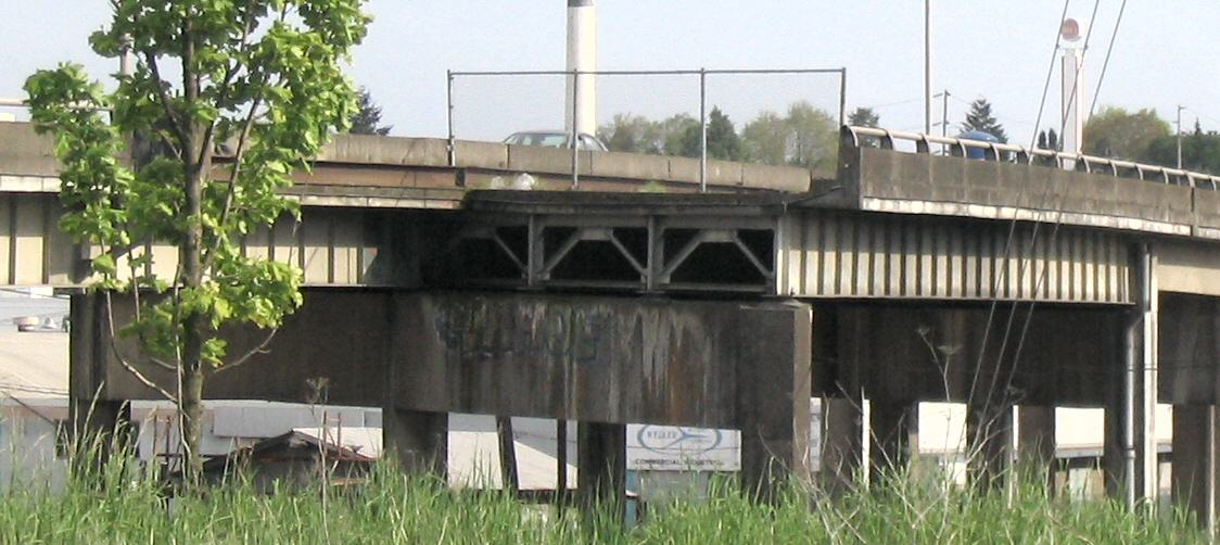 Ghost ramp, Grand Ave. leg of Union Avenue (MLK Way) Viaduct, Portland, OR. Constructed mid-1960s for Marquam Bridge/Mt. Hood Fwy interchange, soon to be demolished in renovation project (view SE from NW) (Location)